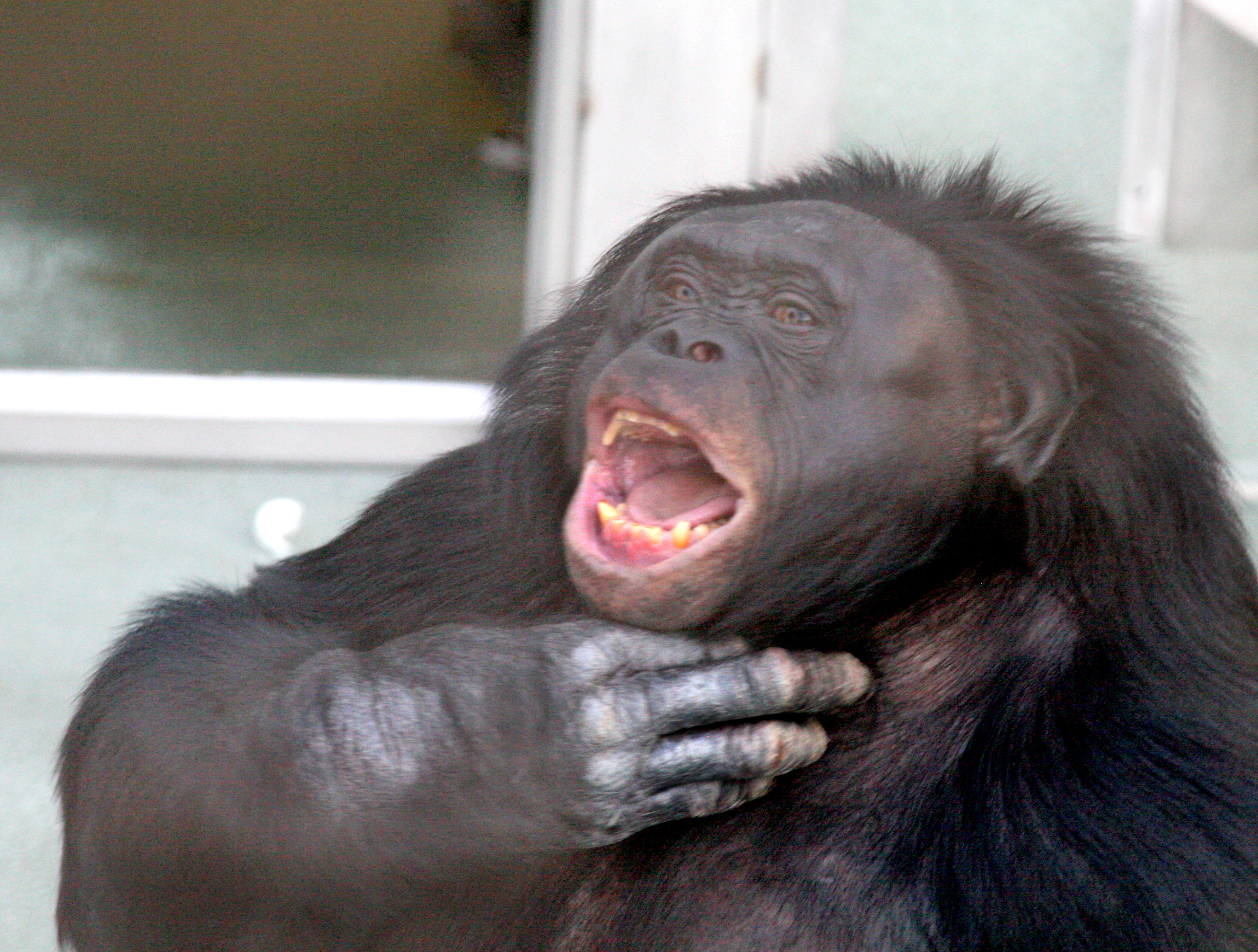 While Kanzi can sometimes mimic human speech, this behavior is for one of the characteristic bonobo vocalizations.